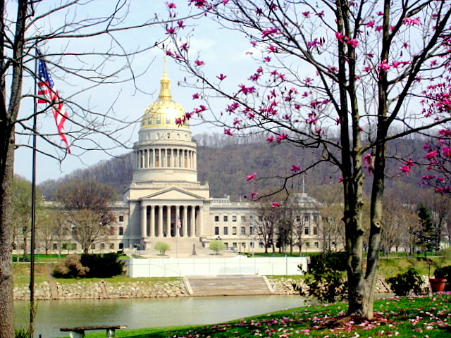 The West Virginia State Capitol Building, Charleston, WV.